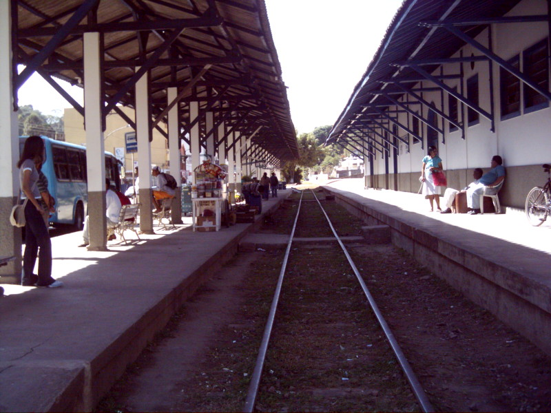 Old train stationt, turist attraction, Miguel Pereira, RJ, Brazil.